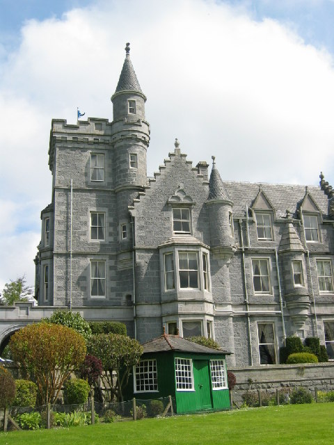 Ardoe House. Now Ardoe House Hotel part of the Macdonald Hotel chain very popular with tourists and business visitors to Aberdeen. New buildings containing bedrooms, function rooms and a leisure centre have been added to the traditional granite built main house.